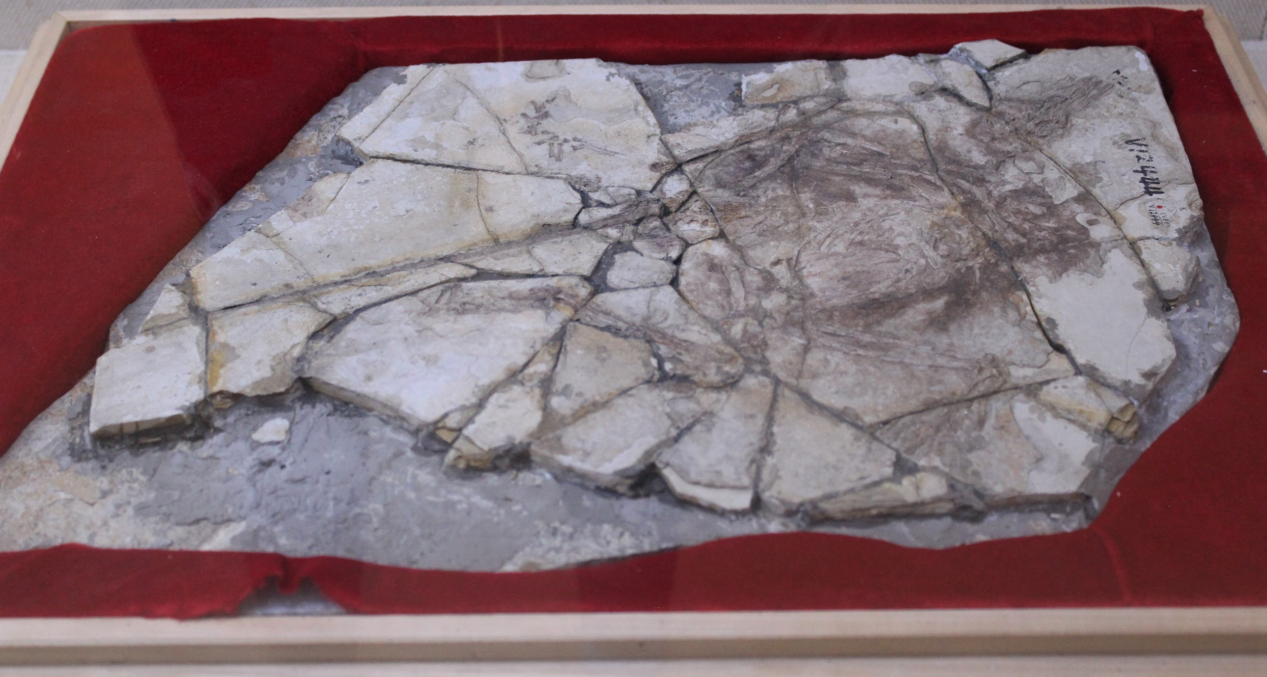 The forged "Archaeoraptor liaoningensis" specimen on display at the Paleozoological Museum of China.